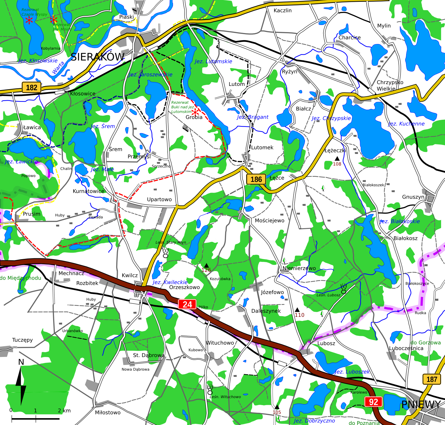 Sierakow Lake District